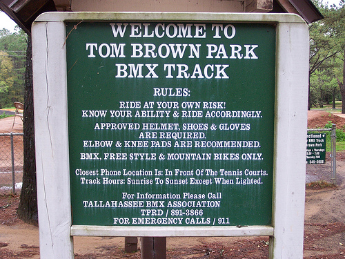 Welcome to Tom Brown Park BMX Track